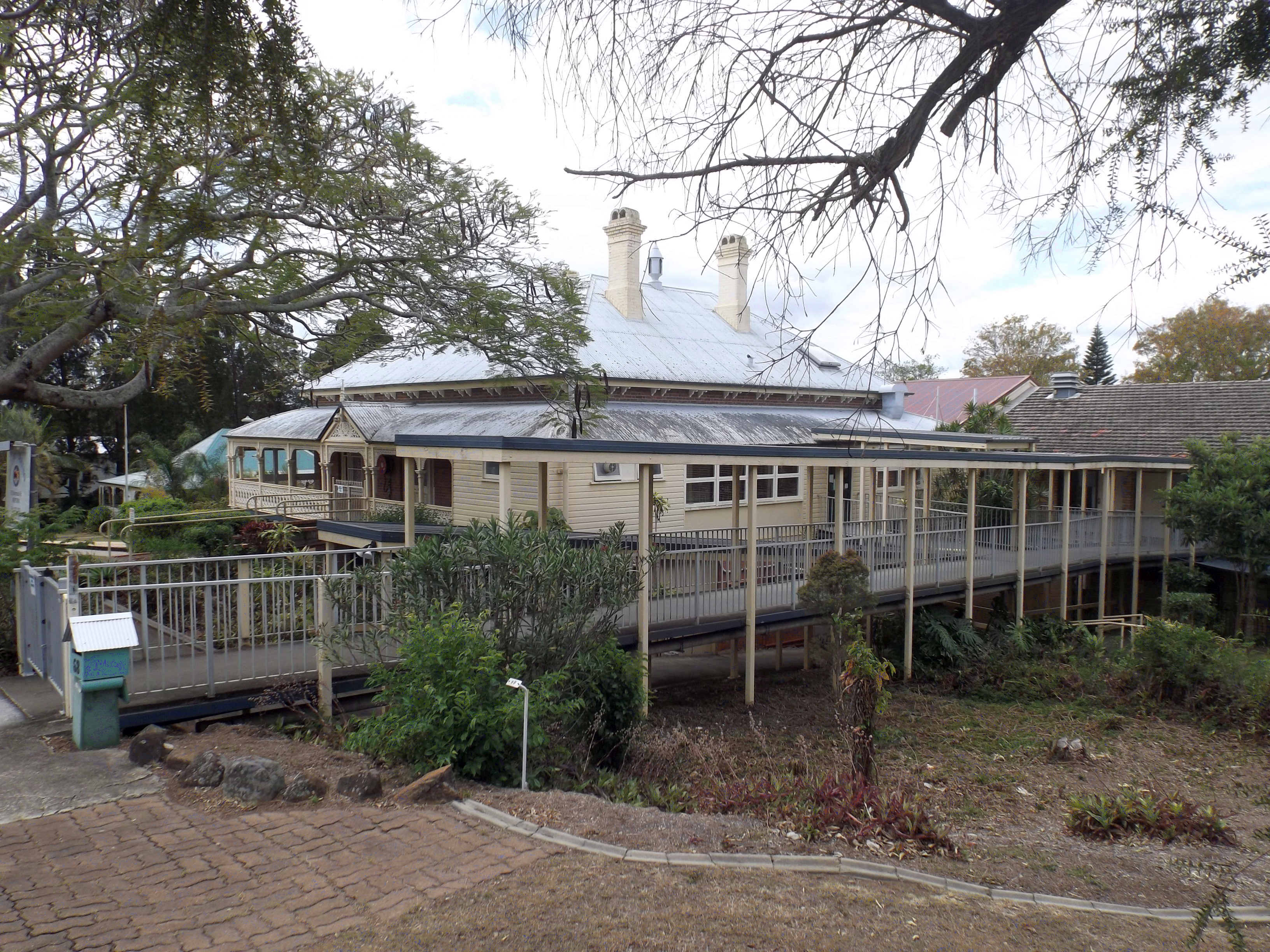 Photo of St Michaels Nursing Home Newtown, Ipswich, Queensland, Australia.